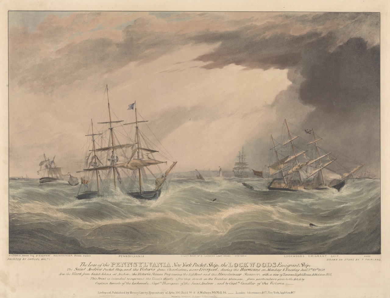 The Loss of the Pennsylvania New York Packet Ship: the Lockwoods Emigrant Ship; the Saint Andrew Packet Ship, and the Victoria from Charleston, near Liverpool during the Hurricane on Monday & Tuesday Jany 7th & 8th 1839 Hand-coloured. Inscription: The loss of the Pennsylvania, New York Packet Ship, the Lockwood Emigrant ship, the Saint Andrew Packet ship and the Victoria from Charleston (Captain Candler), near Liverpool, during the hurricane on Monday & Tuesday Jany 7th & 8th 1839. Also the Ward from St Johns at anchor; the Victoria Steam Tug (Liverpool Steam-Tug Company, Captain Eccles) towing the Lifeboat (Magazine) and the Mountaineer steamer, with a view of Leasowe Lighthouse & Bidston Hill. This print is intended to represent the vessels shortly after they struck on the Tuesday afternoon from particulars given to the artist by Captain Sprowle of The Lockwoods; Captain Thompson of the Saint Andrew and by Captain Candler of the Victoria.